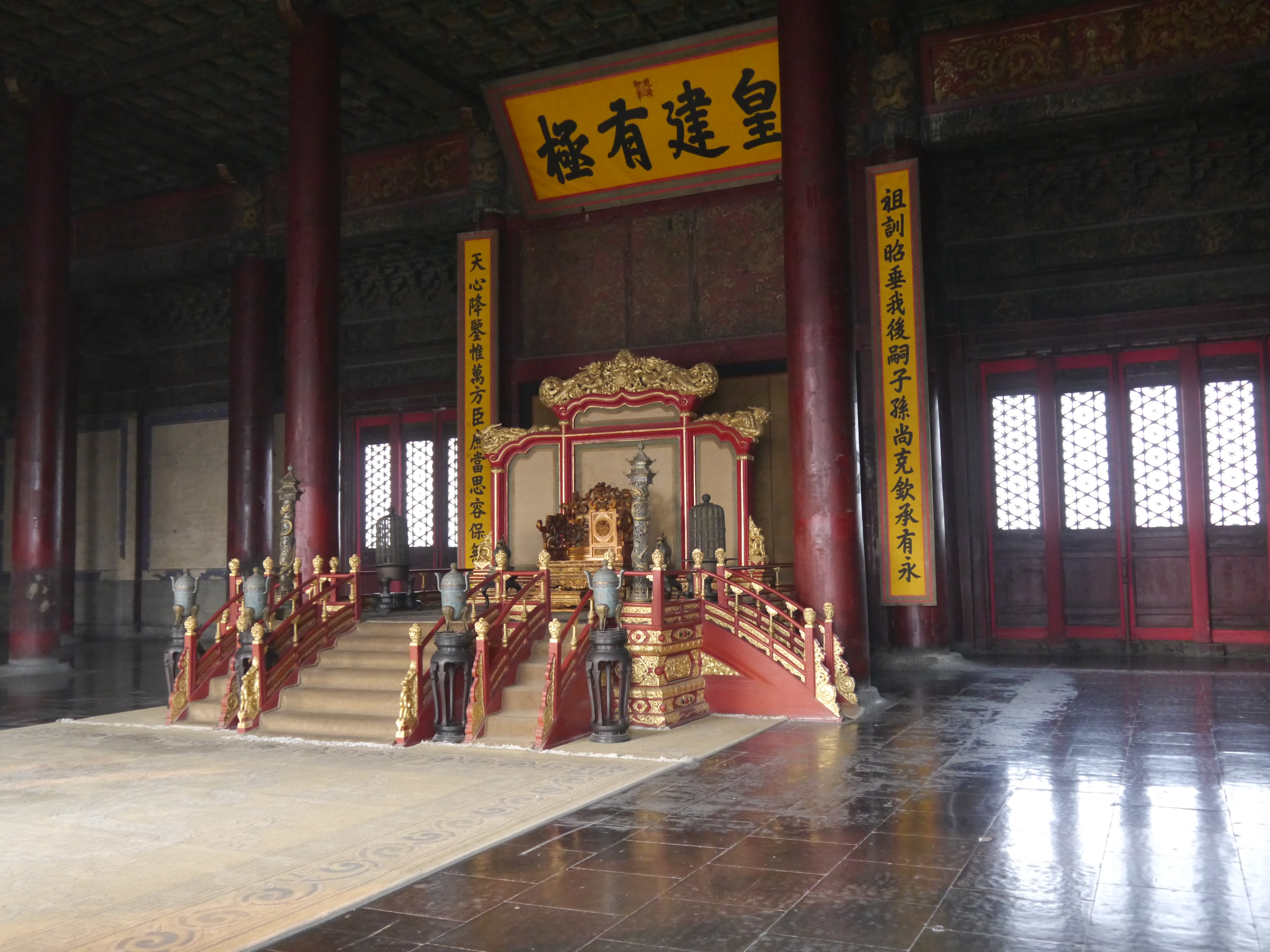 China, Beijing, Forbidden City.